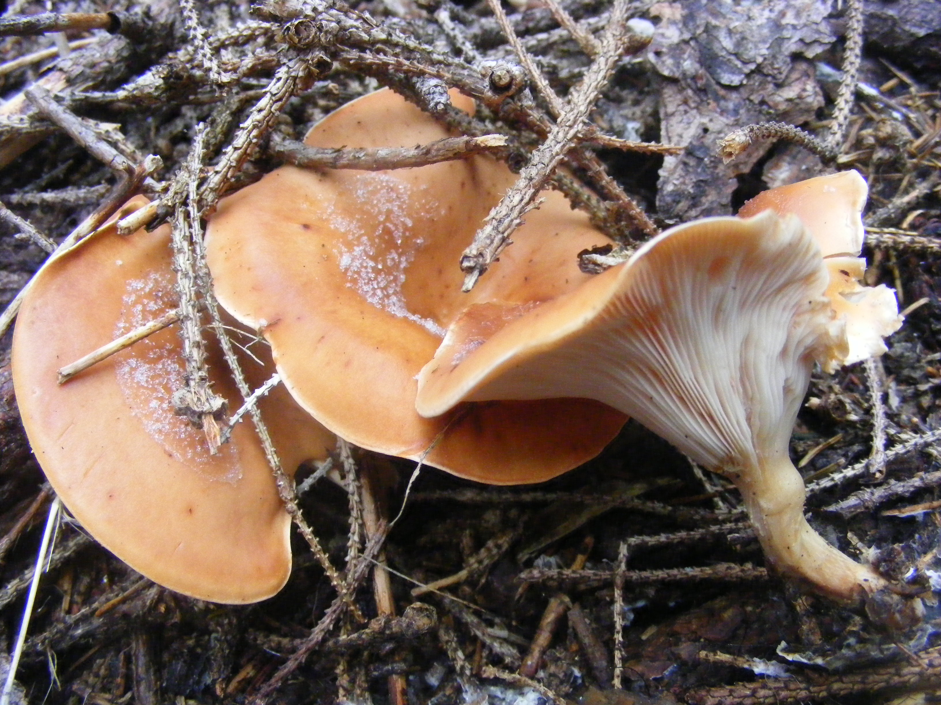 Clitocybe inversa